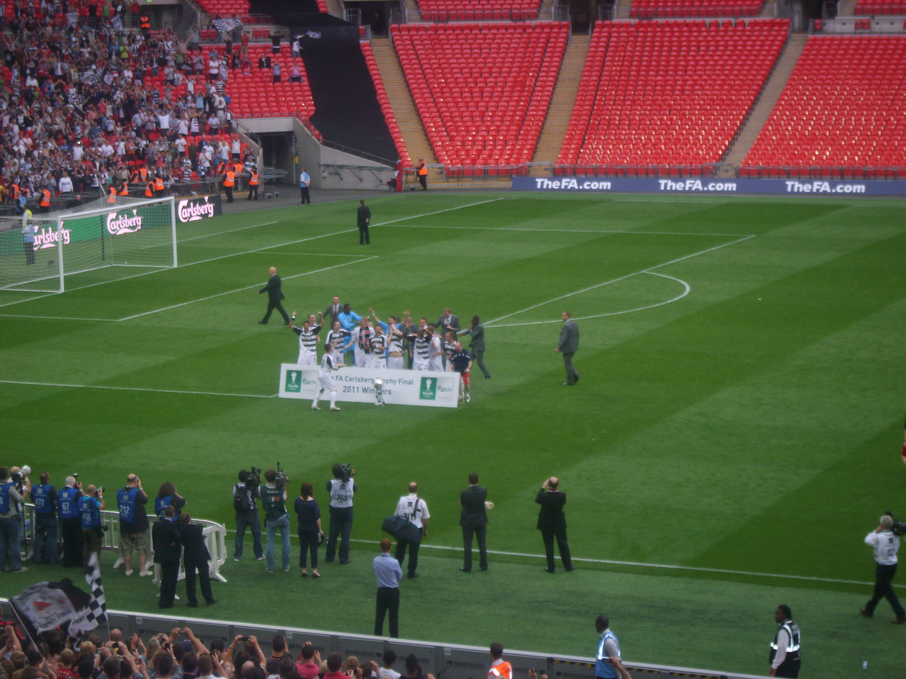 Darlington celebrating winning the 2011 FA Trophy